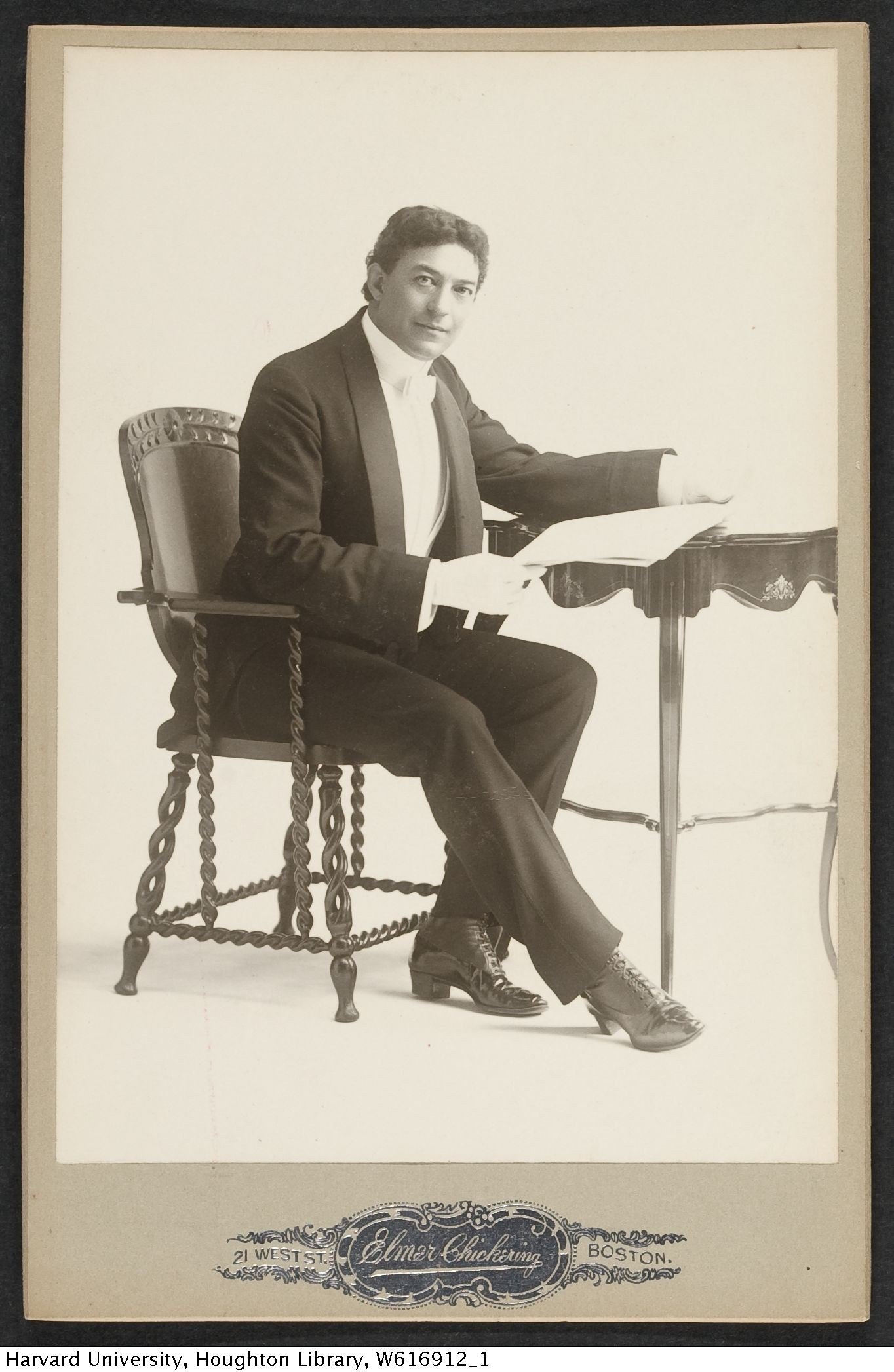 Cabinet card image of American stage and film actor Edmund Breese (1871–1936), sitting at a desk. From a collection dated 1918. TCS 1.3580, Harvard Theatre Collection, Harvard University